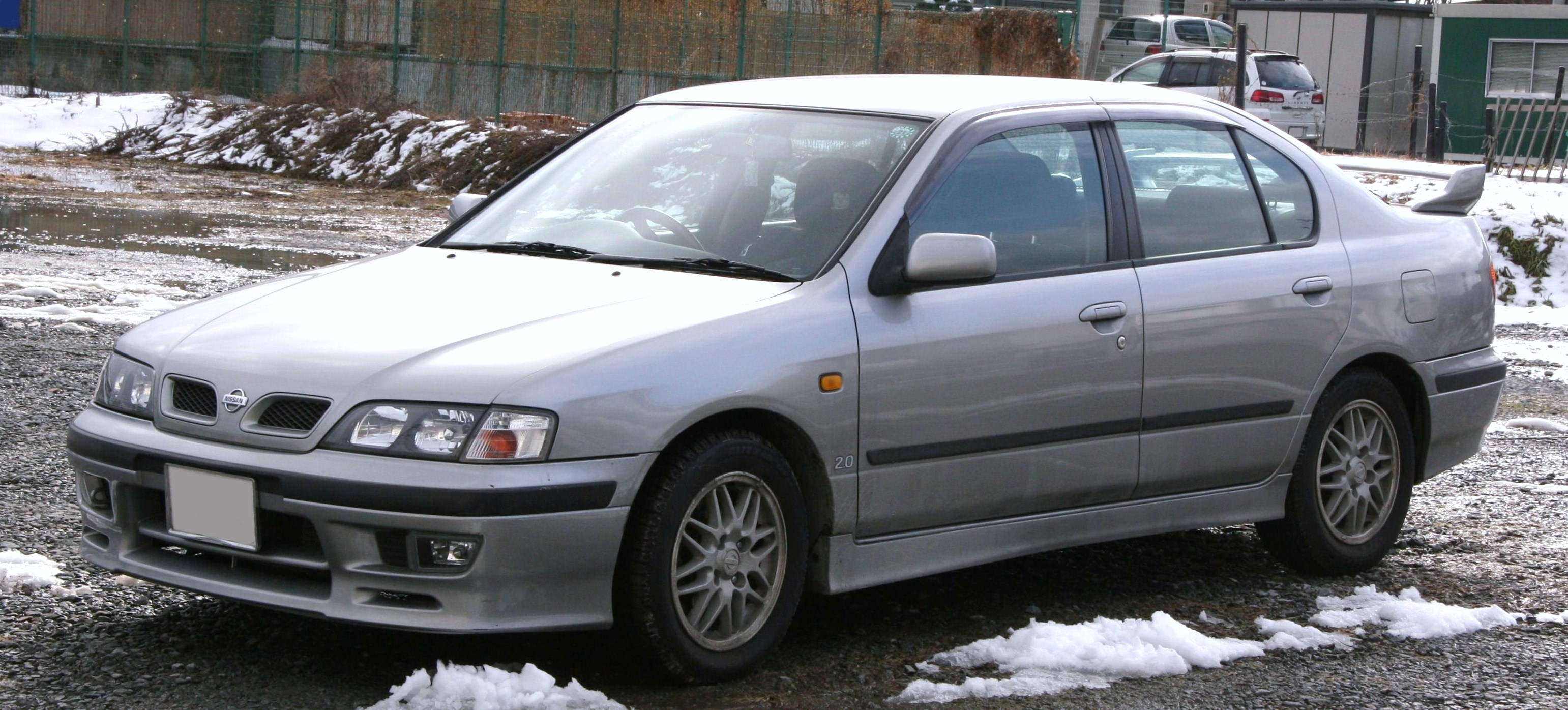 Nissan Primera